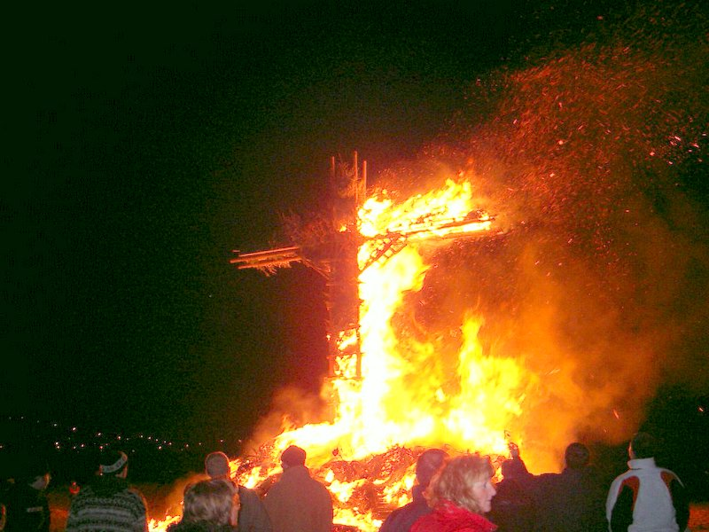 Cross-burning in Junglinster, Luxembourg.